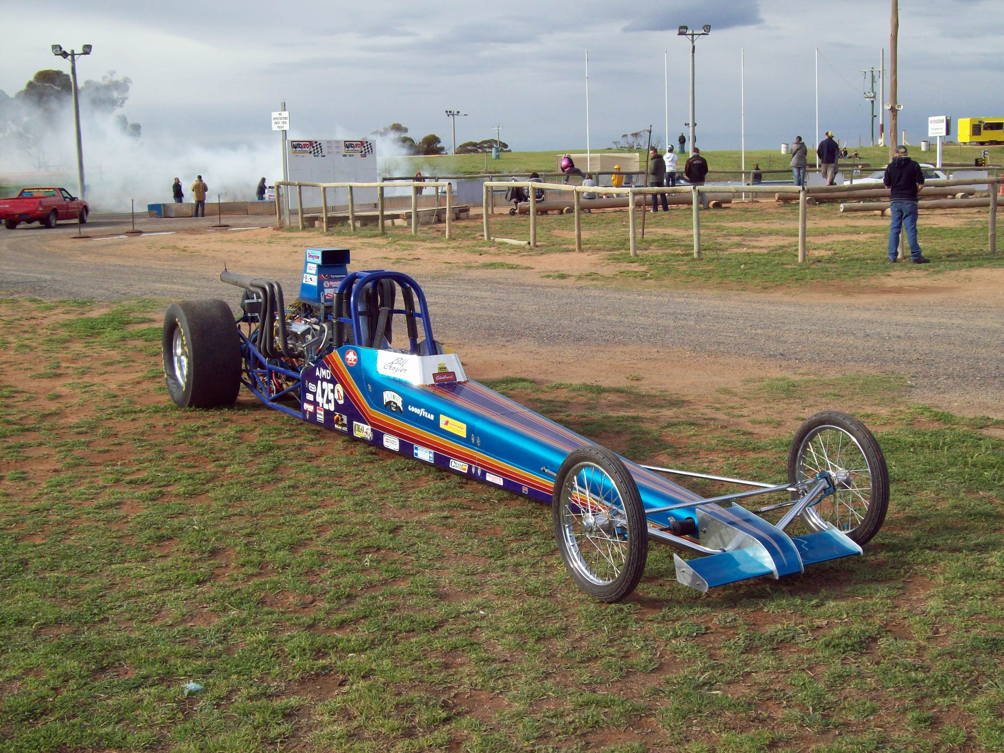 Dragster at Sunset Strip Drag Racing, Koorlong, Victoria, Australia